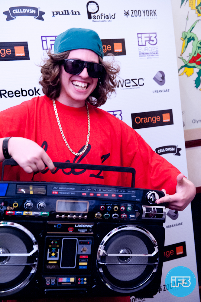 Henrik Harlaut, A Swedish Skier, present at iF3 2011 Europe, and nominated for The Best Euro Performance Prize presented by Oakley in "Black Out"